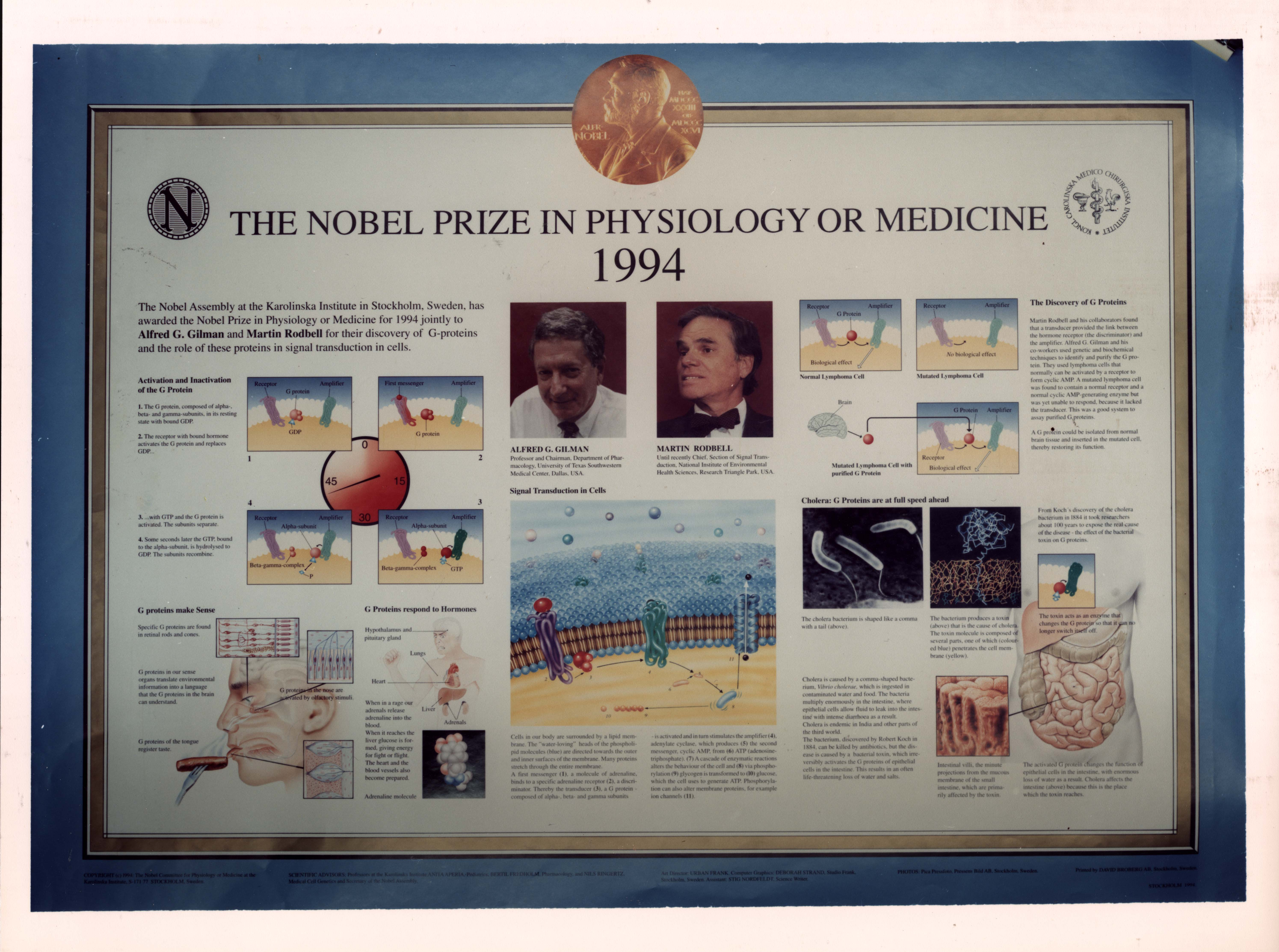 The 1994 Nobel Prize in Physiology or Medicine poster.